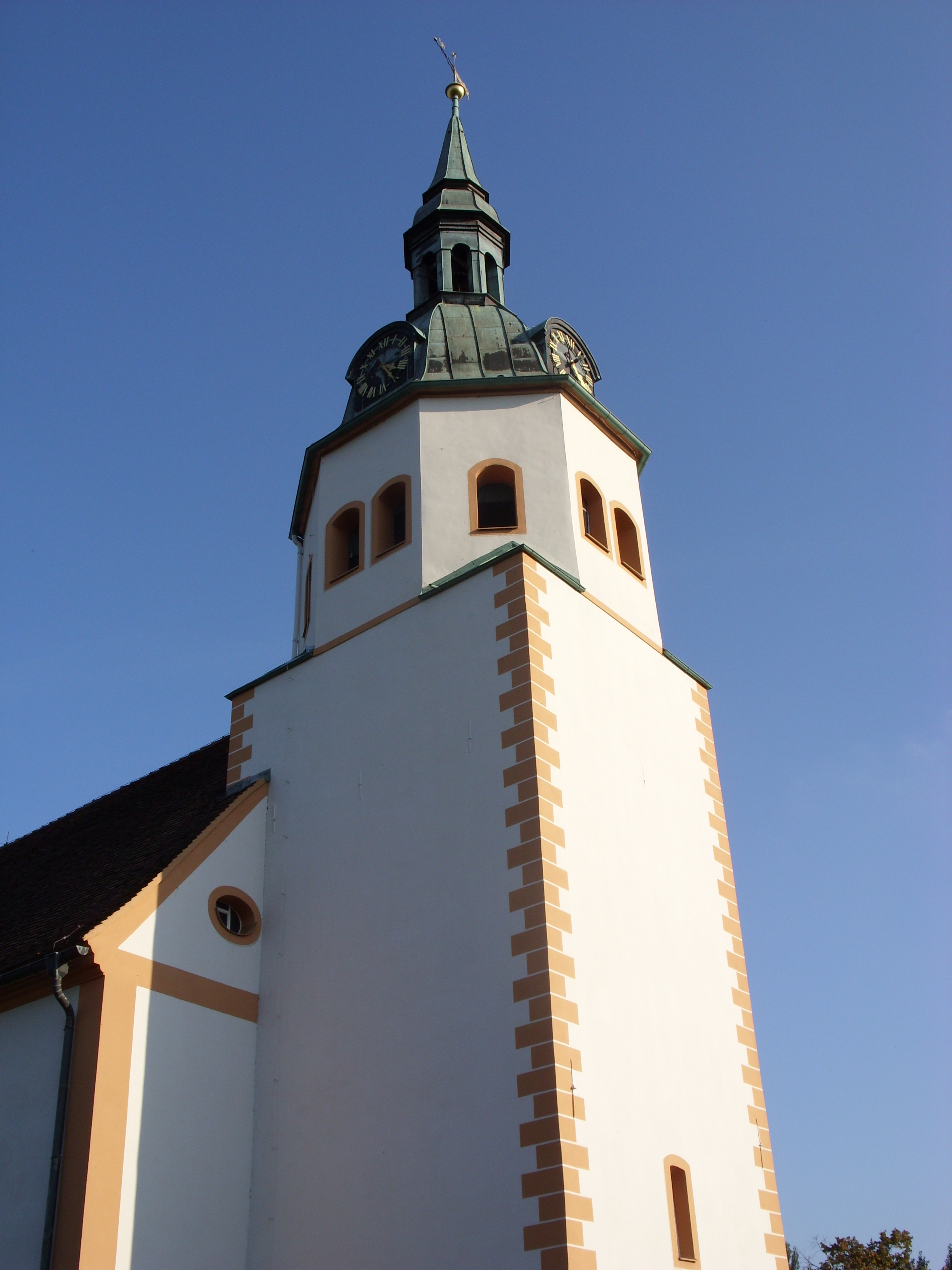 Church of Groß Särchen, Bautzen district.